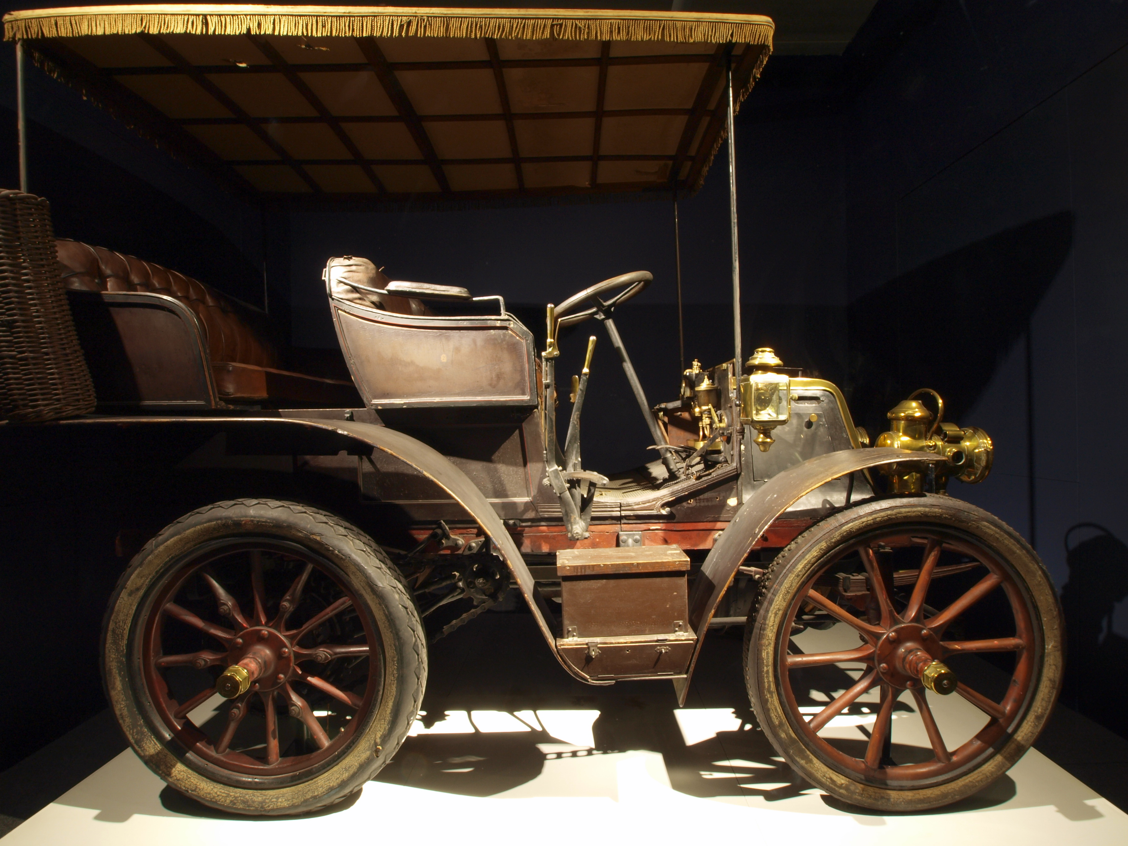 Photographed at the Louwman museum, The Netherlands.